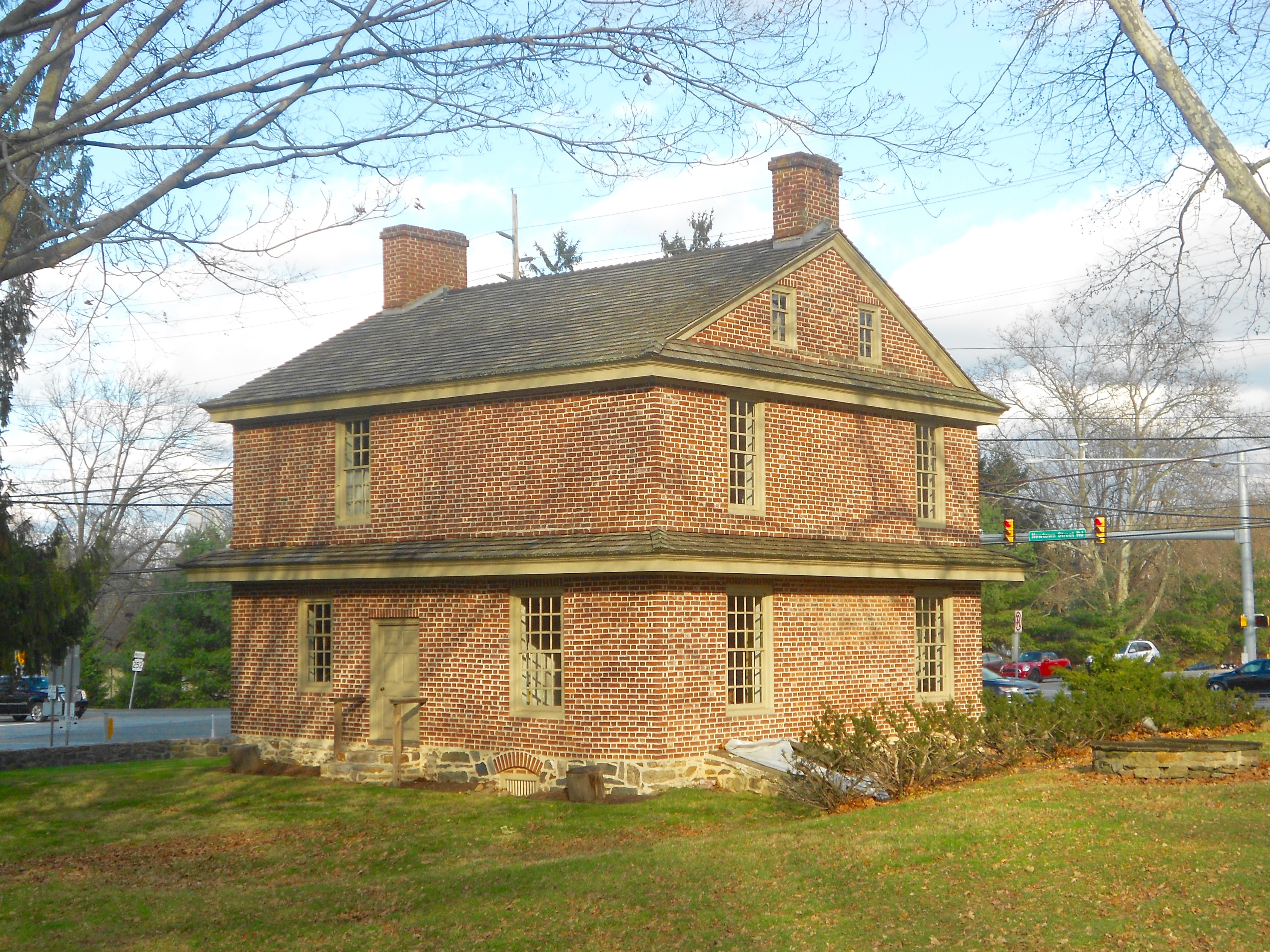 Square Tavern, aka the John West House, The Square, and Newtown Square Tavern, in Newtown Township, Delaware County, Pennsylvania (aka Newtown Square, Pennsylvania). Home and workplace of the father of painter Benjamin West (presumably home of B. West) It was added to the National Register of Historic Places in 1984.